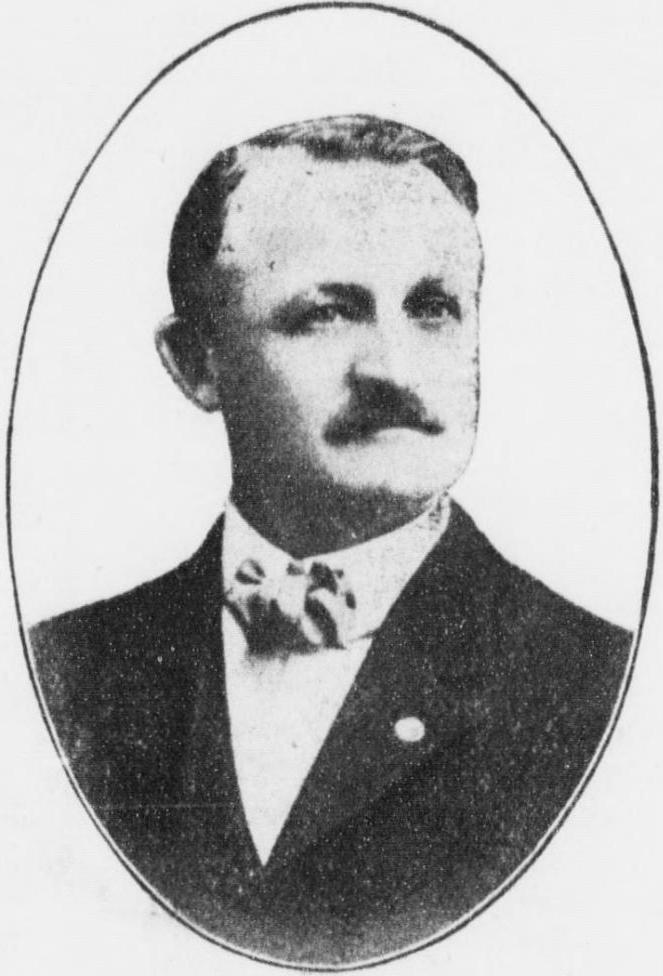 M. E. Hay, 7th Governor of Washington